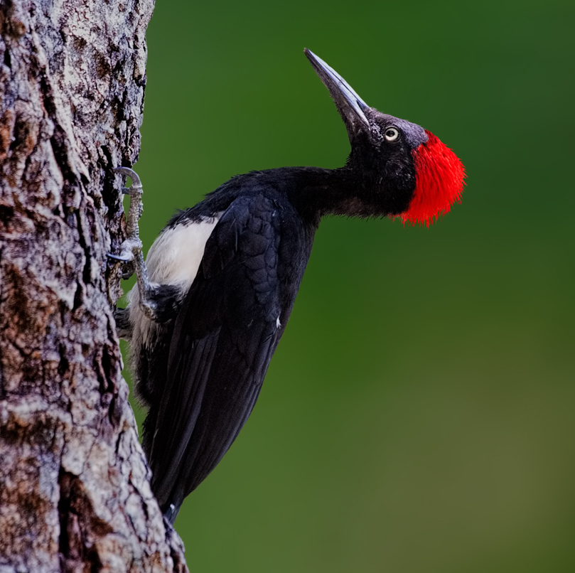 The White Bellied Woodpecker Dryocopus javensis hodgsonii from Mudhumalai Wild Life Sanctuary, Tamil Nadu State in India